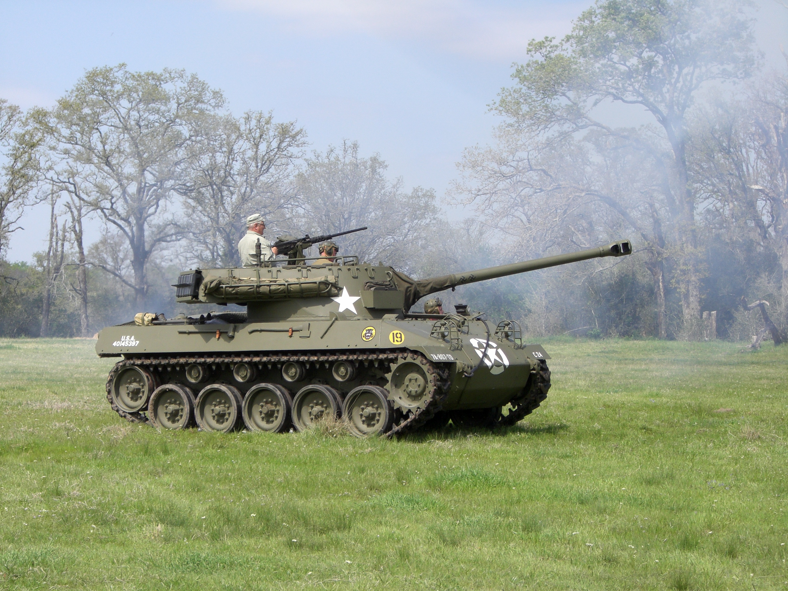 This is a privately-owned M18 Hellcat, in reasonable operating condition. I took this photograph at the Museum of the American GI 2007 open house/reenactment.